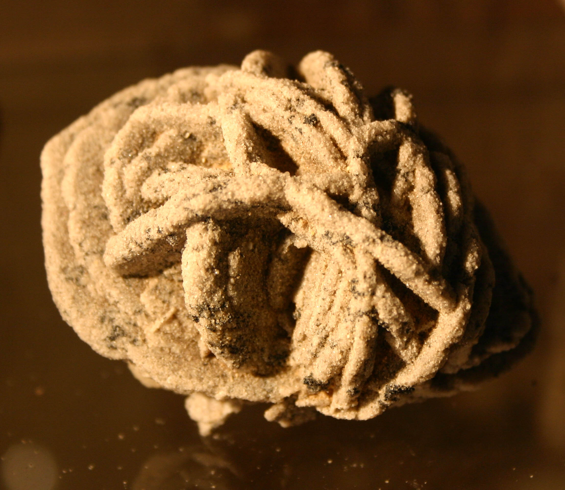 Description: Desert rose